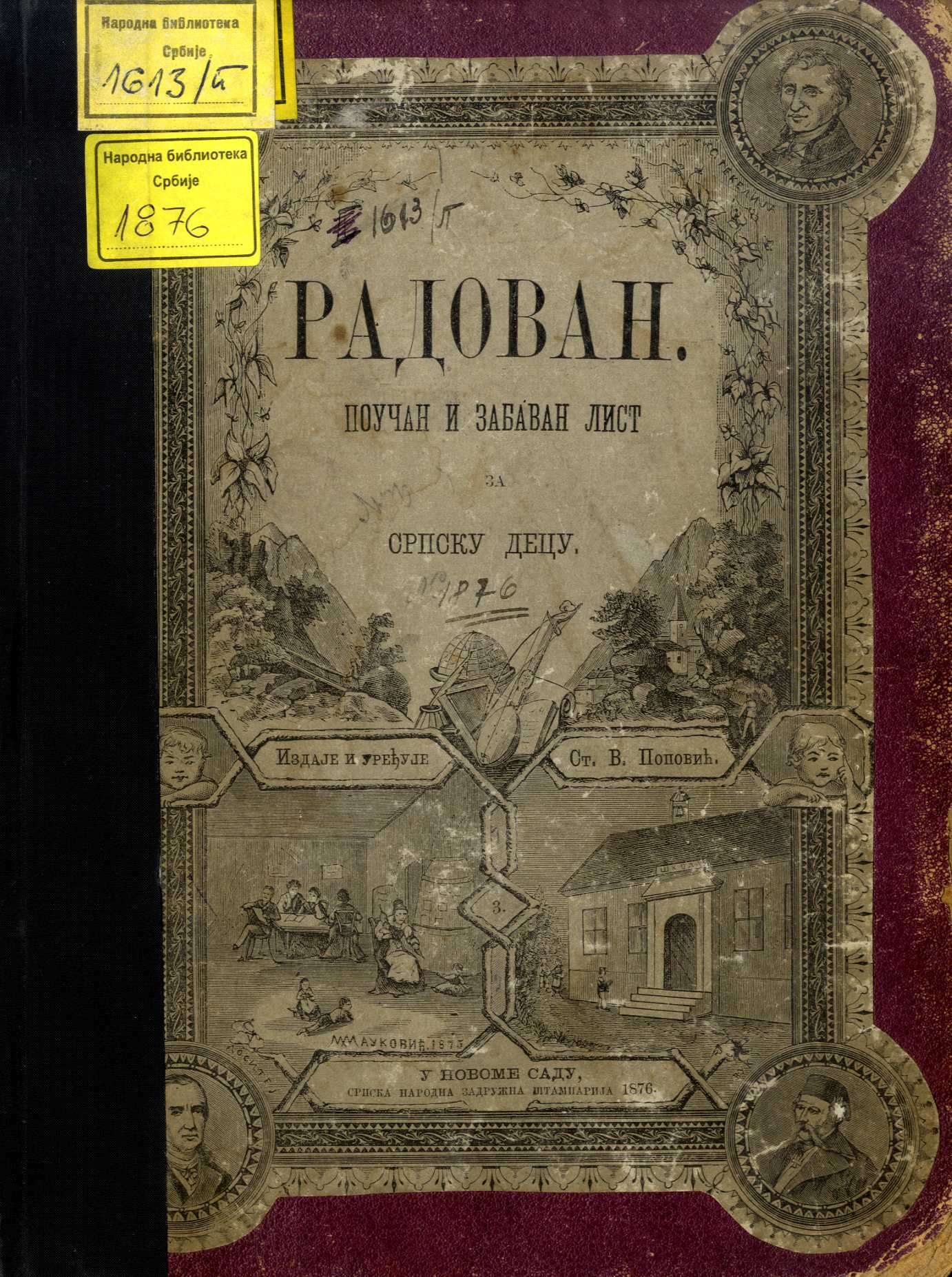 Radovan, cover, 1876, Novi Sad